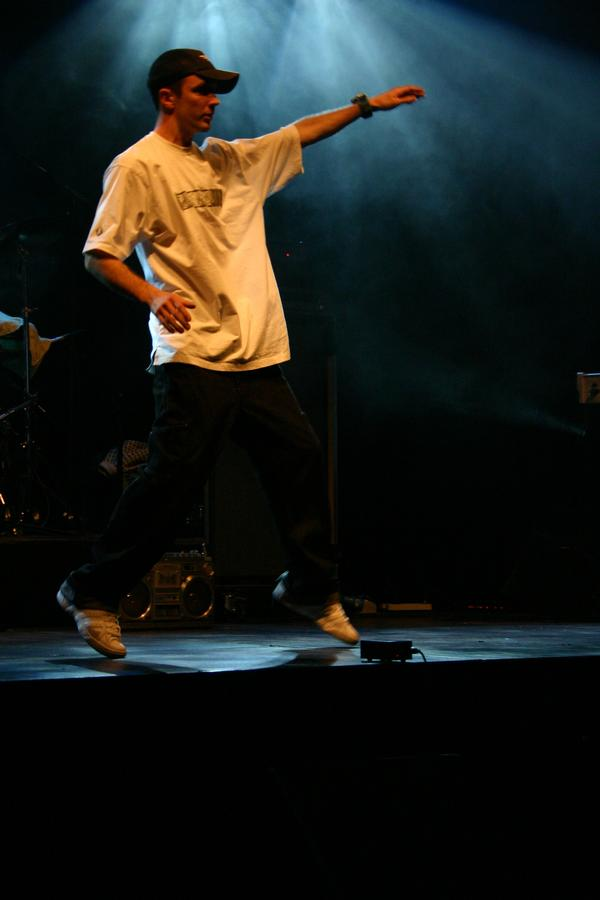 From a popping performance choreographed and performed by Stefan Bootin.